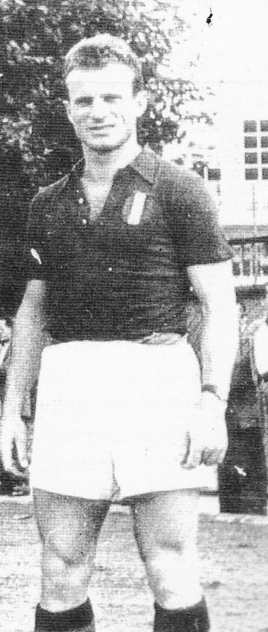 Italian footballer Valentino Mazzola with A.C. Torino in the 2nd half of the 1940s.